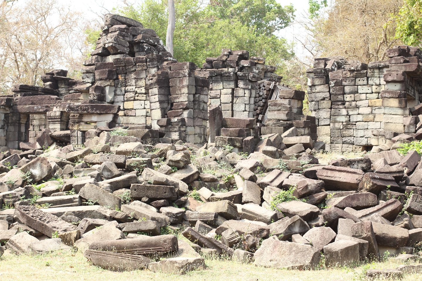 Temple of Banteay Chhmar, Cambodia